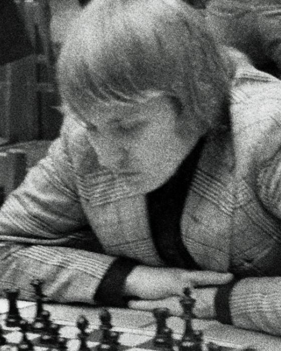 Jaan Eslon, 1972 at Strasbourg, Photographer Gerhard Hund.